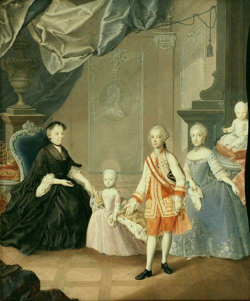 Empress Maria Theresa with her son the Grand Duke of Tuscany, daughter in law and two oldest children